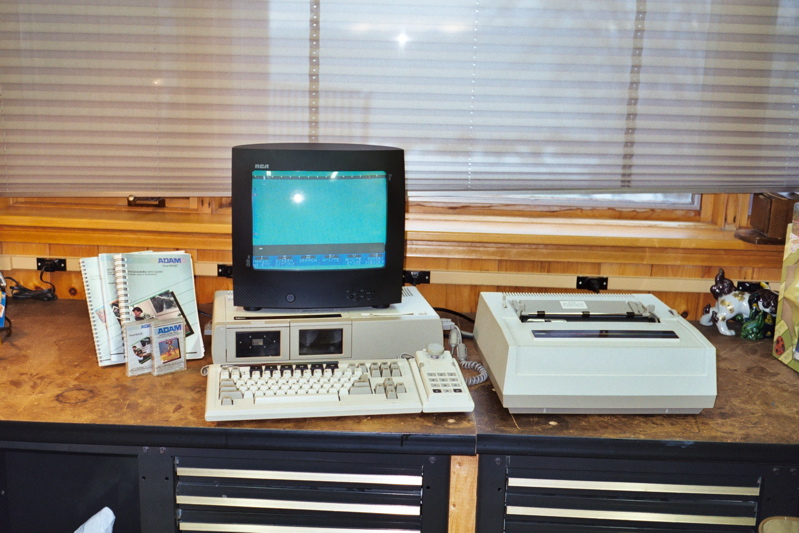 Coleco ADAM System